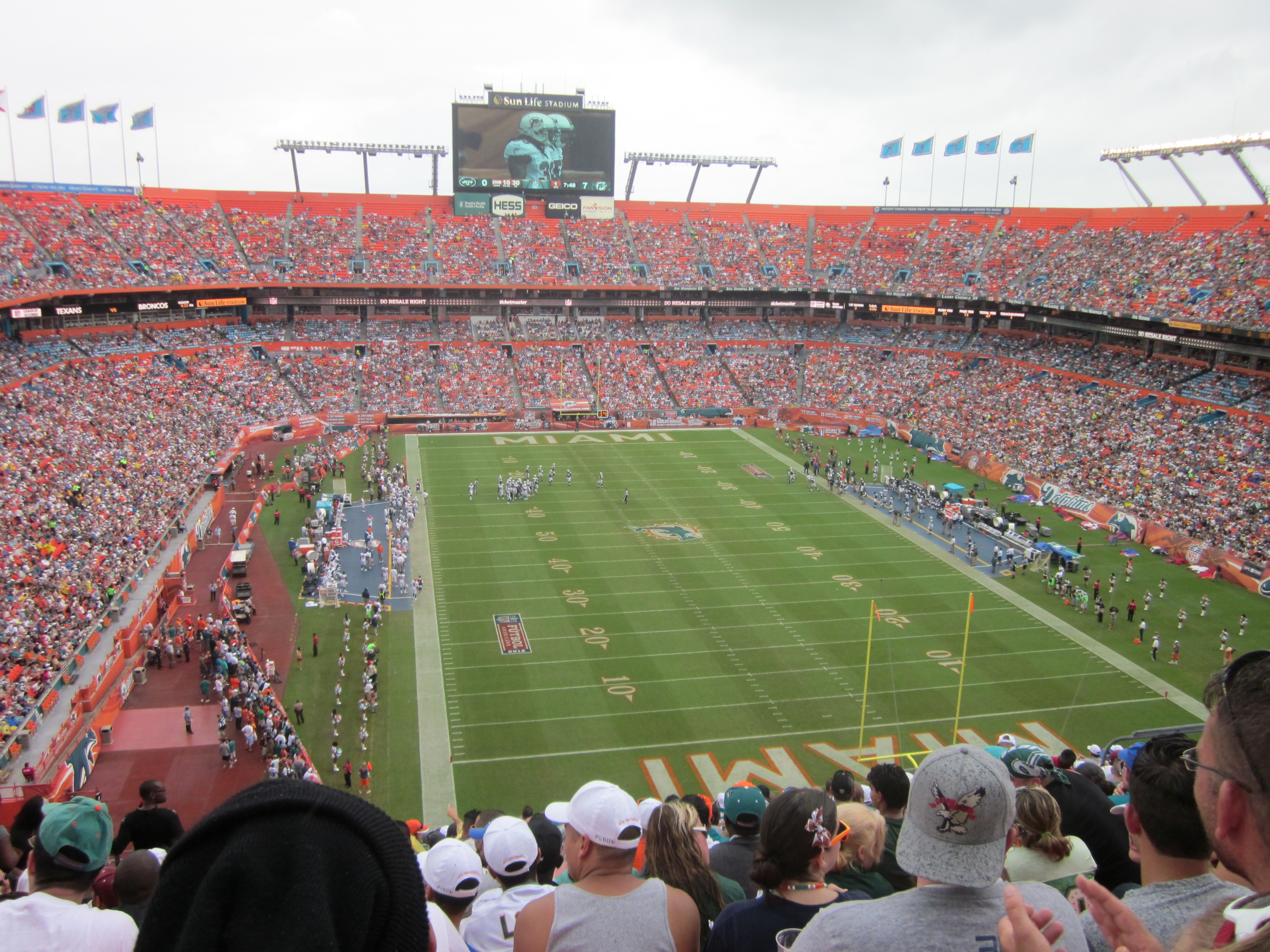 Overall view of the Sun Life Stadium in Miami Gardens, Florida, during a National Football League regular season game between the New York Jets and the Miami Dolphins , celebrated 23 September 2012. As seen from the upper deck.